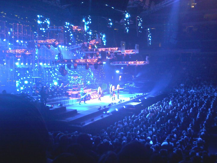 Tru Collins, Jodi Katz TSO 2010 North American Winter Tour